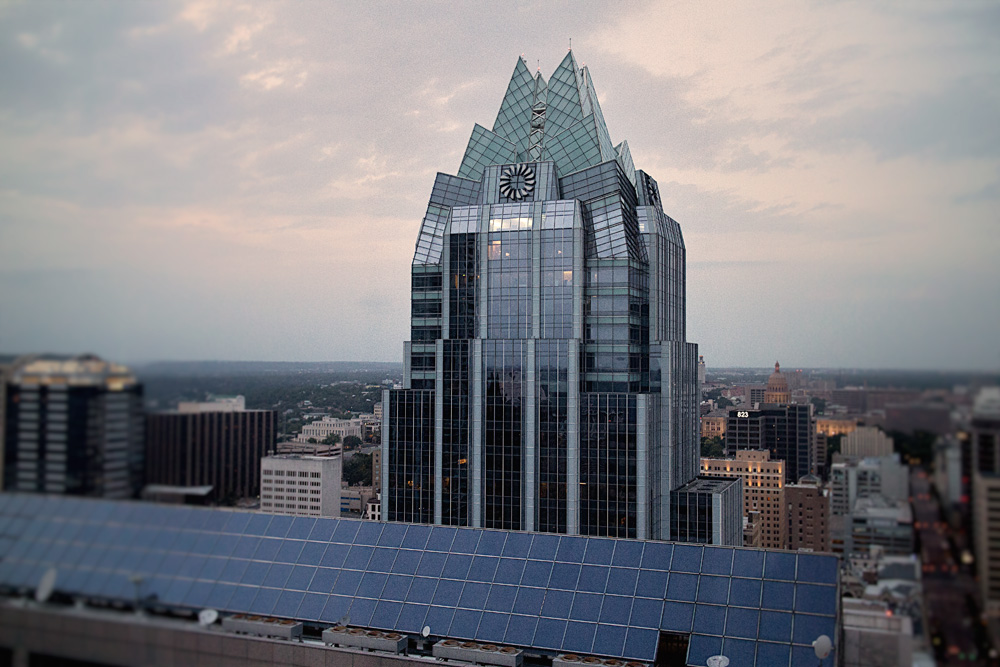 The Frost Bank Building in Austin, Texas, as seen at dusk.